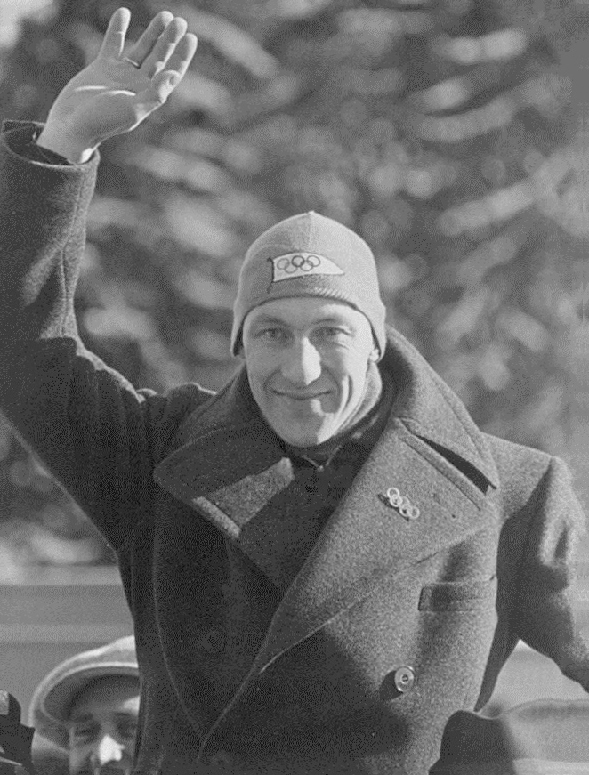 Ivar Ballangrud of Norway waves to spectators during the 1936 Winter Olympic Games in Garmisch-Partenkirchen, Germany. Ballangrud won gold medals in the 500 Metres, 1500 Metres and 10000 Metres and a silver medal in the 5000 Metres SpeedSkating events.